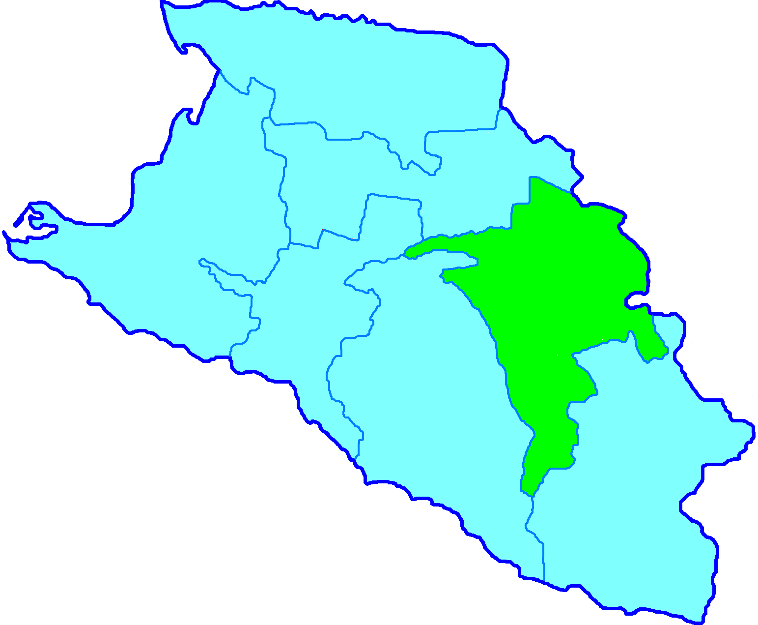 Map of Labinski Otdel, Kuban Oblast, Russian Empire and Kuban-Black Sea oblast, RSFSR, Soviet Union (1888-1924).